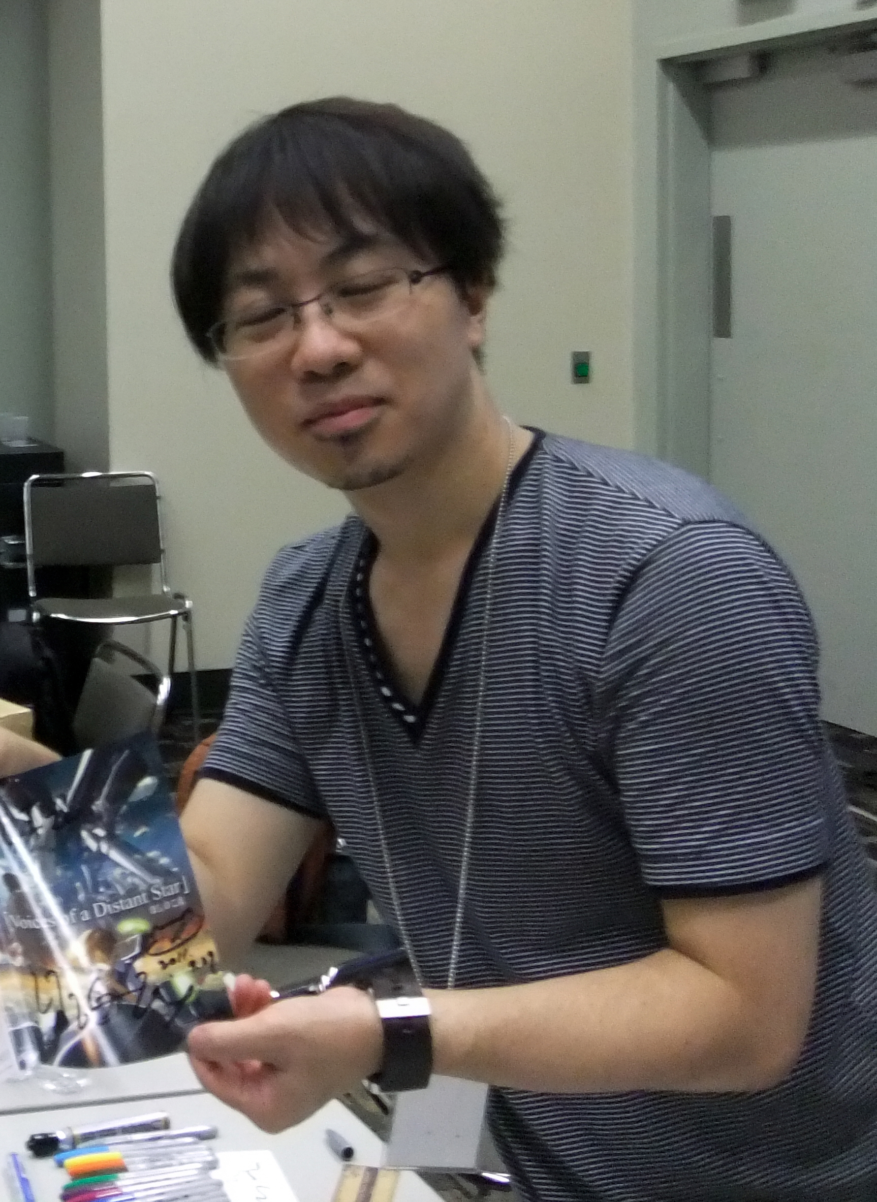 Makoto Shinkai at Otakon 2011, on July 29, 2011